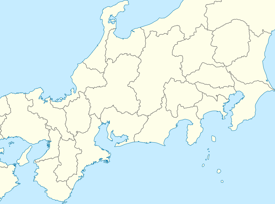 Kanto, Chubu, and Kansai